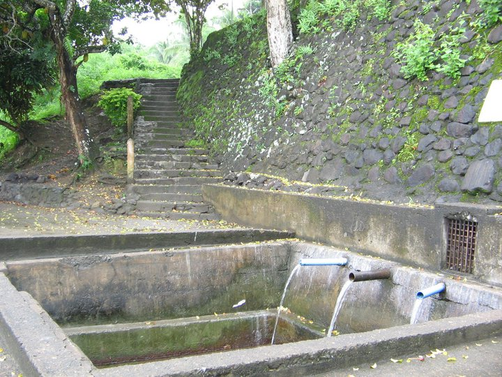 Biasong Spring